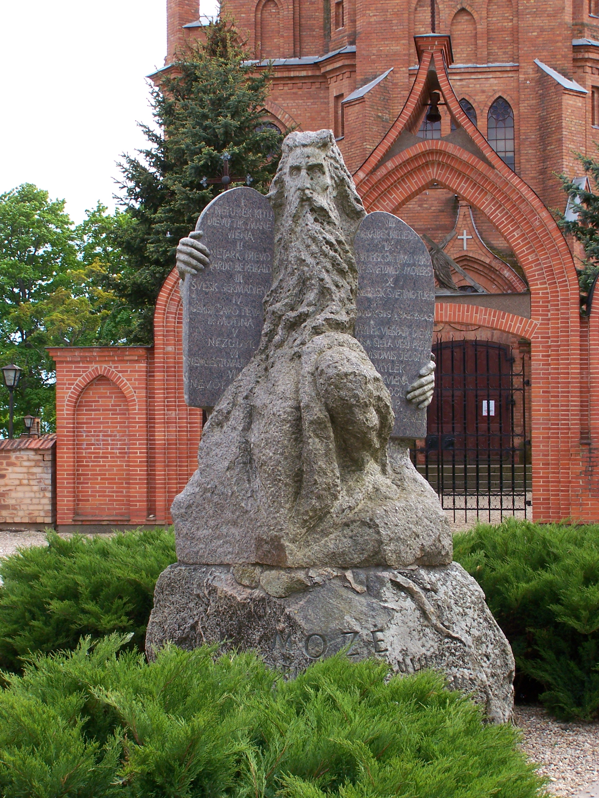 Moses monument in Kernavė (Lithuania).